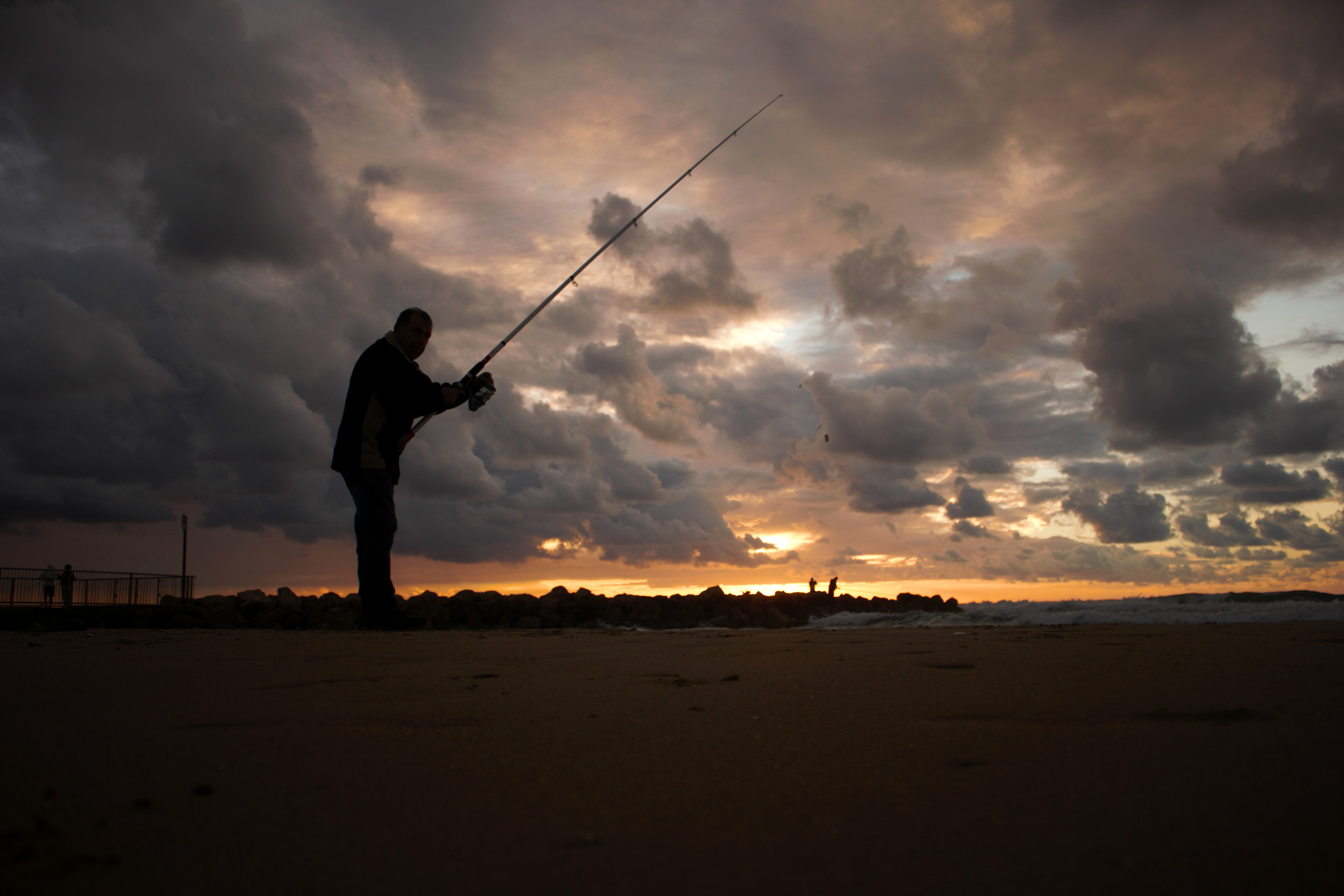 Nature and Colors